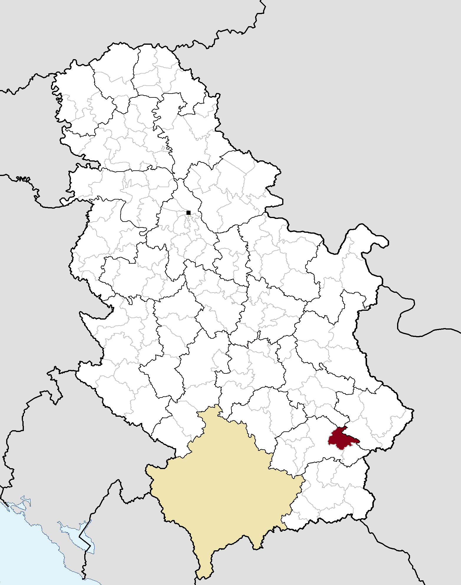 Municipal location in Serbia